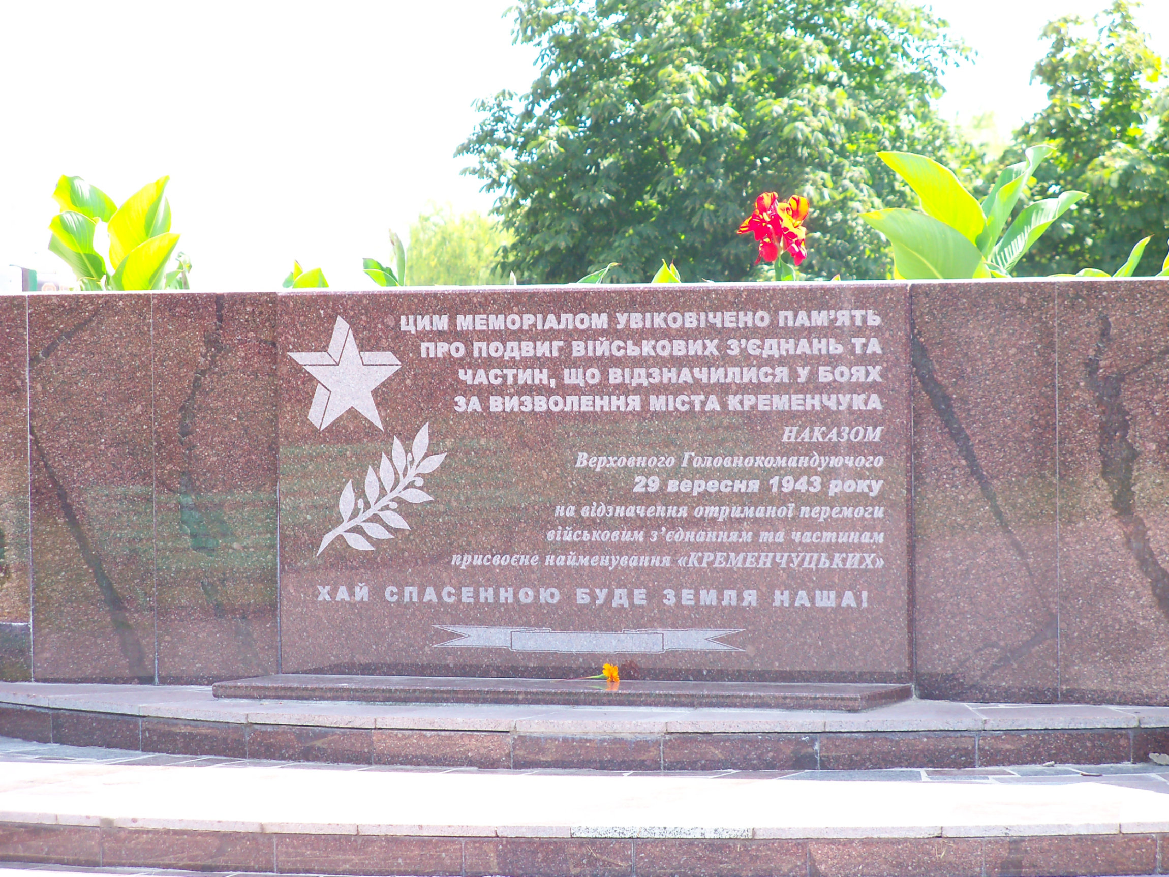 Monument to the military and units that distinguished themselves in battle for Kremenchuk